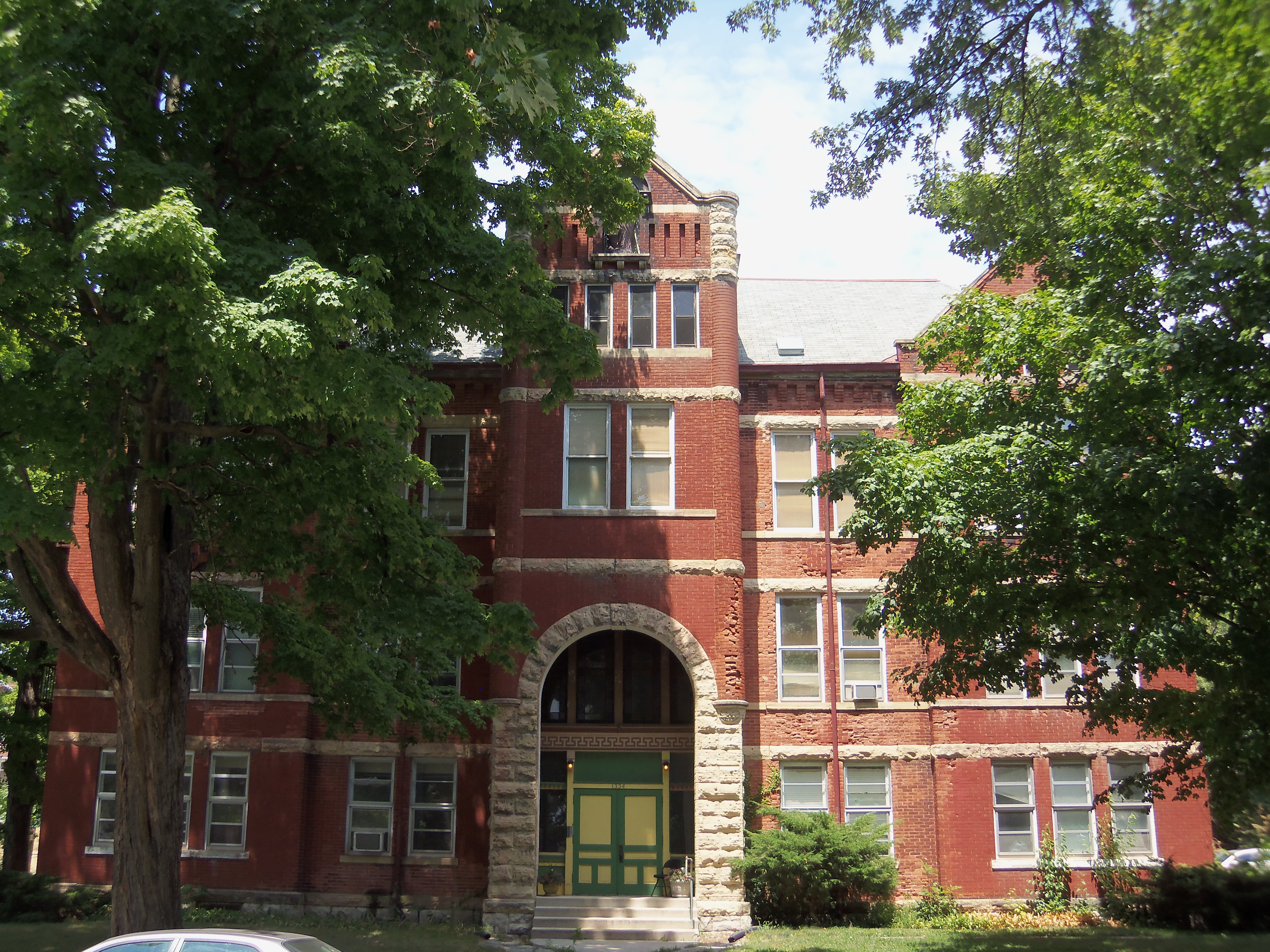 St. Mary's Academy is the former school building for St. Mary's Catholic Church, Davenport, Iowa. It is listed on the National Register of Historic Places.